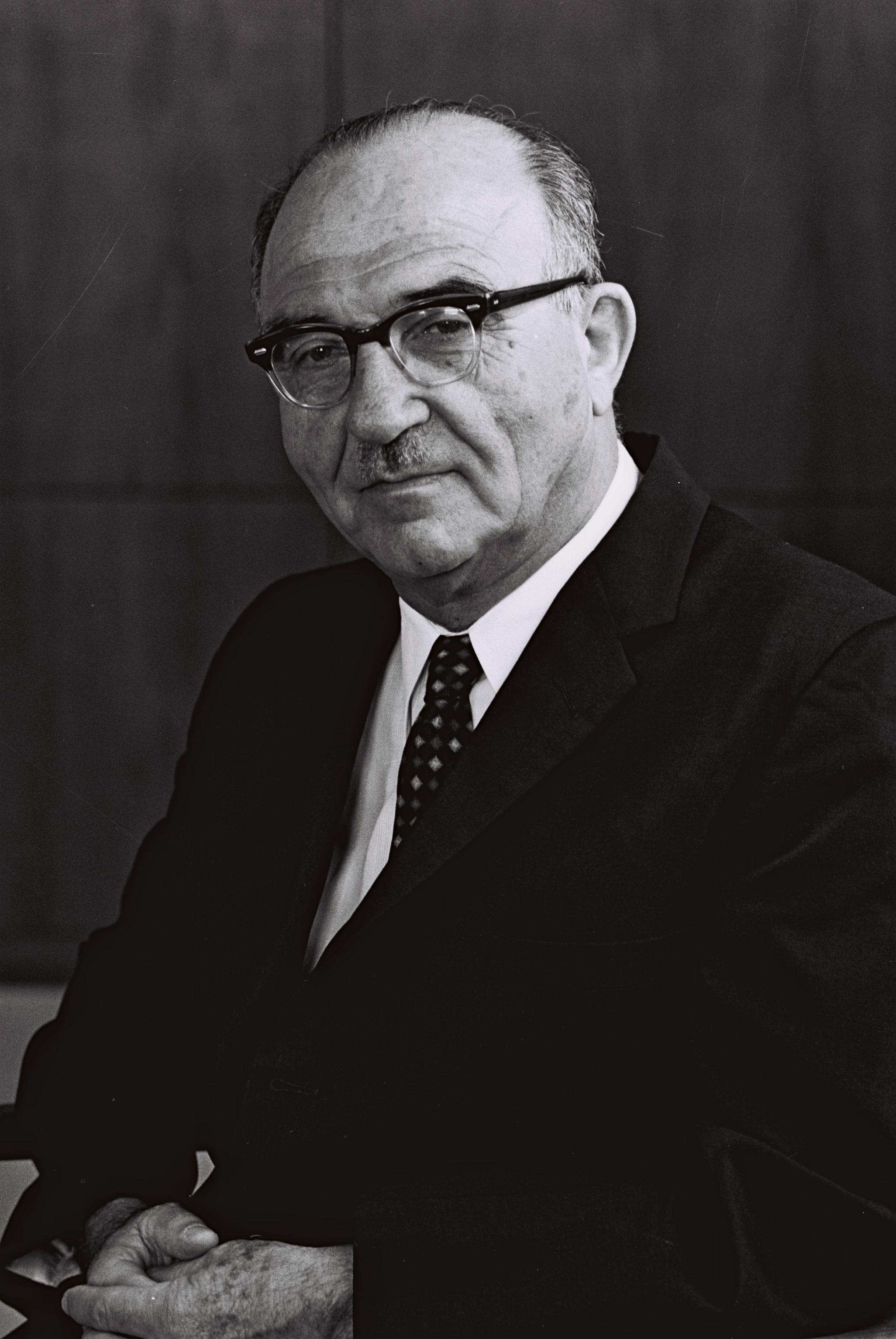 Portrait of prime minister Levy Eshkol.